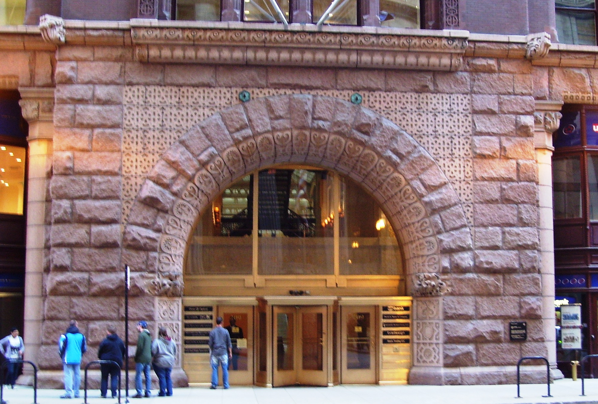 The entrance to The Rookery in Chicago, Illinois.